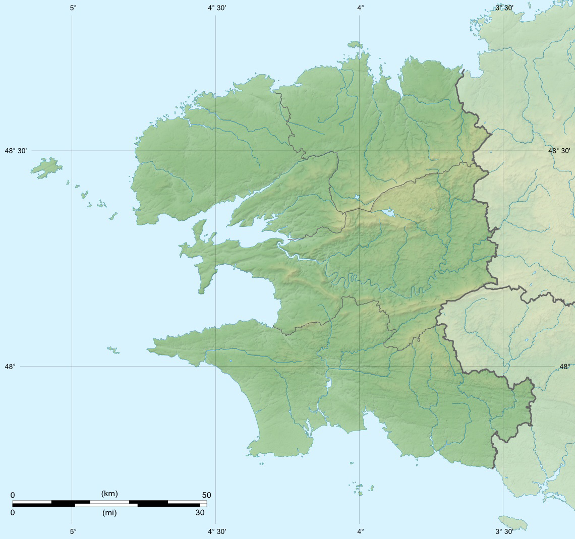 Blank physical map of the department of Finistère, France, for geo-location purpose, with distinct boundaries for departments and arrondissements.